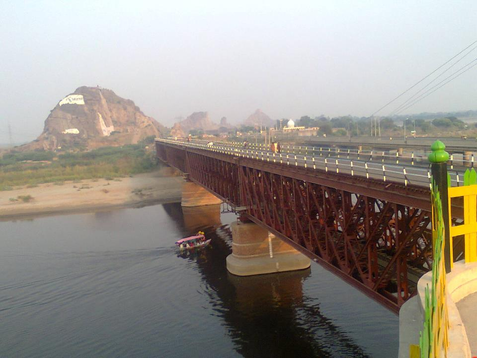 Picture of Chiniot bridge made during that time when Britten rule on Subcontinent . Beside of that it was beautiful site to click...